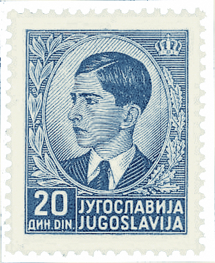 Postage stamp, Kingdom of Yugoslavia, 1939: King Peter II. No author/artist name given.